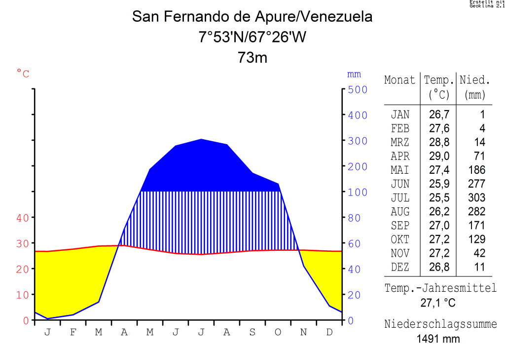 climate chart in the format by Walther and Lieth, metric, °Celsisus and millimeters, made with Geoklima 2.1 DateOctober 2006SourceSoftware: Geoklima 2.1 Website GeoklimaAuthorHedwig in WashingtonPermission (Reusing this file) Own work, attribution required (Multi-license with GFDL and Creative Commons CC-BY 2.5)